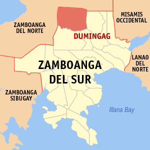 Map of Zamboanga del Sur showing the location of Dumingag